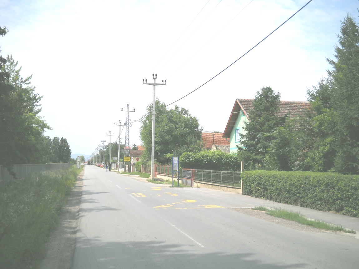 Street in Sajlovo neighborhood in Novi Sad.